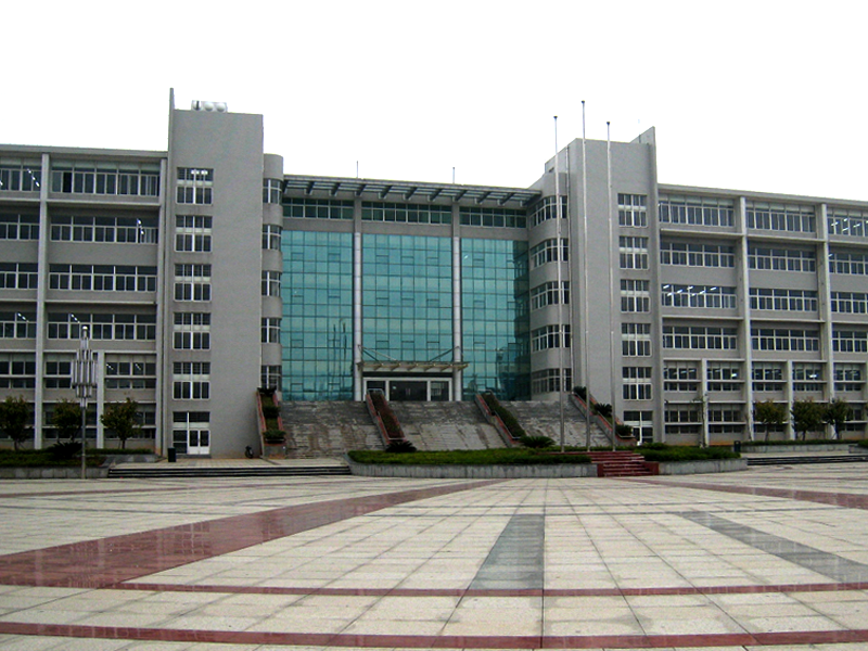 View of the Jiangxi Agricultural University